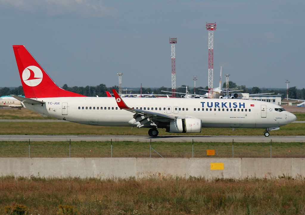 Turkish Airlines Boeing 737-8F2 TC-JGE lands at Kiev-Boryspil Airport. This is the aircraft that crashed on Turkish Airlines Flight 1951.